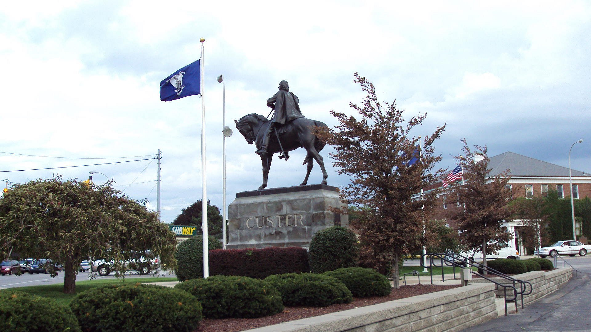 Equestrian statue of George Armstrong Custer (Monroe, Michigan)